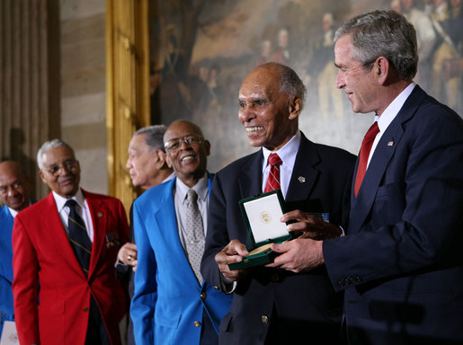 US President George W. Bush presents the Congressional Gold Medal to Dr. Roscoe Brown Jr., during ceremonies honoring the Tuskegee Airmen Thursday, March 29, 2007, at the U.S. Capitol. Dr. Brown, Director of the Center for Urban Education Policy and University Professor at the Graduate School and University Center of the City University of New York, commanded the 100th Fighter Squadron of the 332 Fighter Group during World War II. (Details)